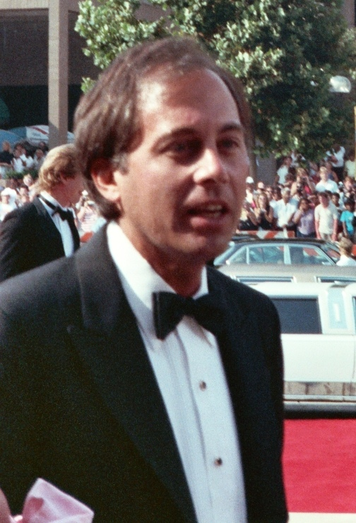 Brandon Tartikoff at the 40th Annual Primetime Emmy Awards